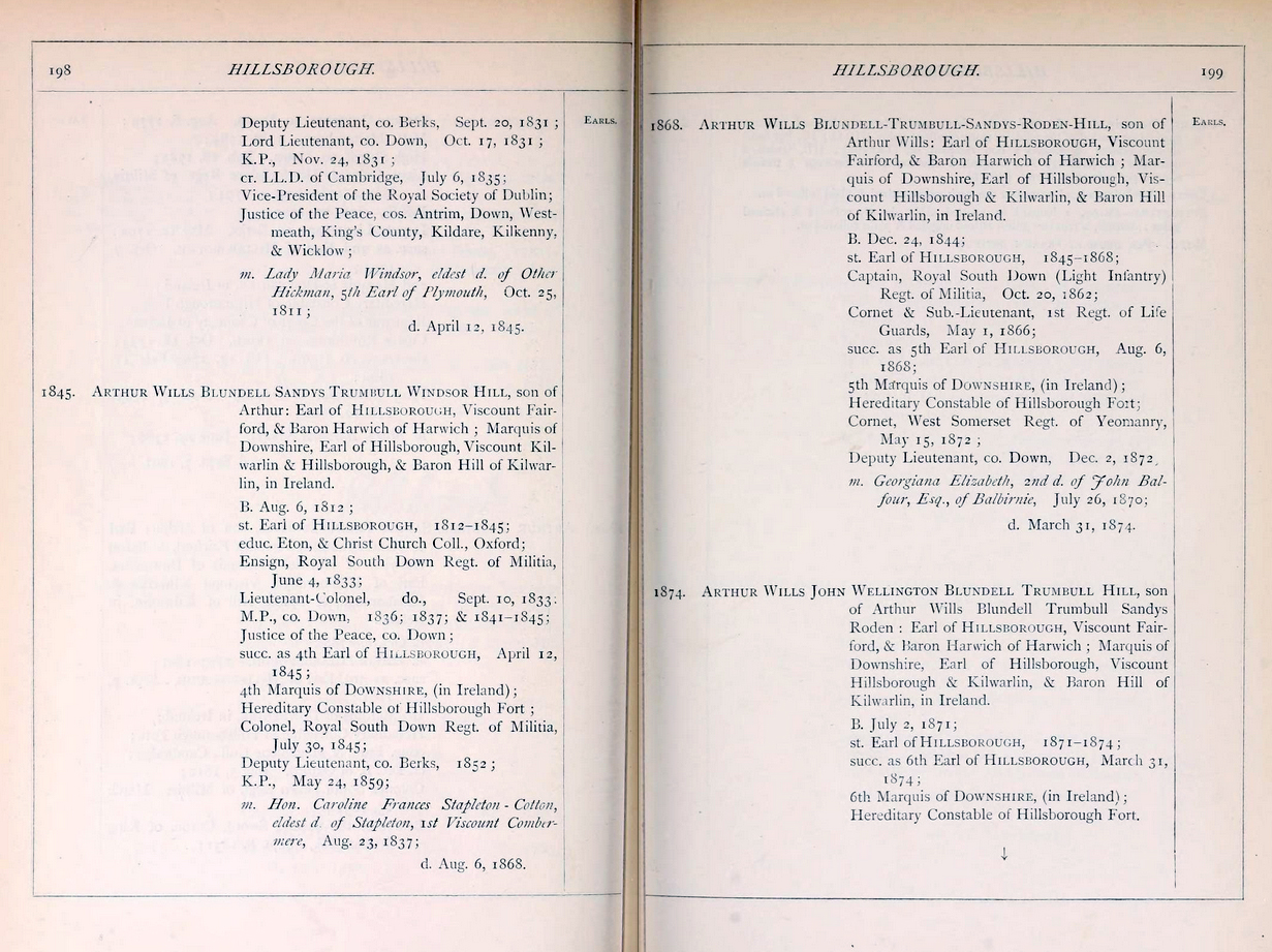 Marquess of Downshire pages 198-199 of The Official Baronage of England, v. 2 (1886)